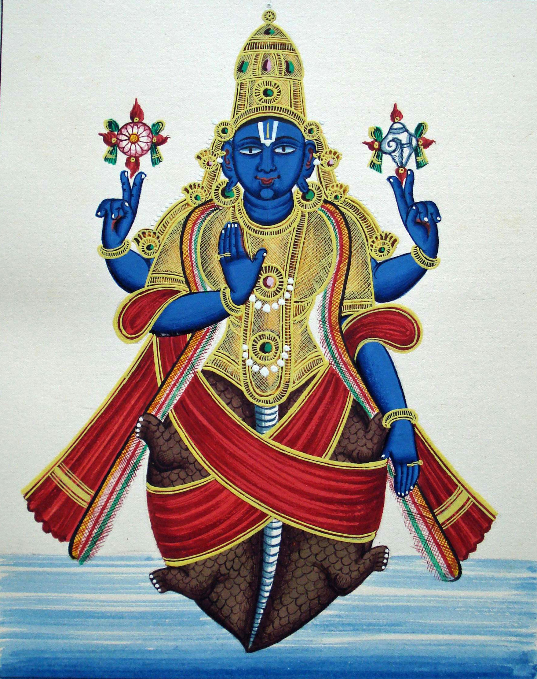 Kurma